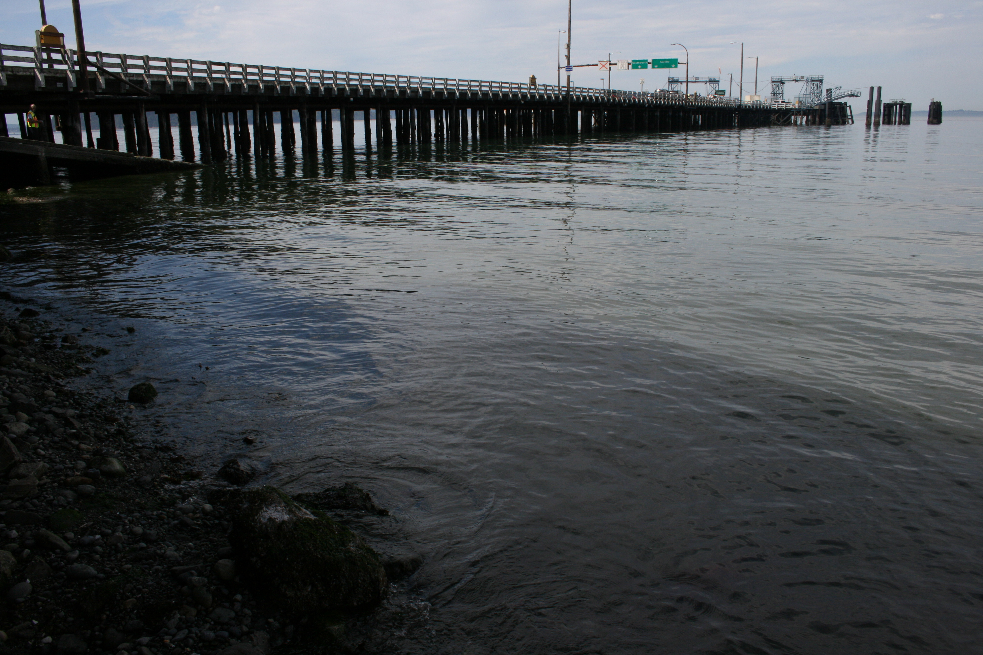 The Vashon Heights ferry dock on Vashon Island that serves Seattle.